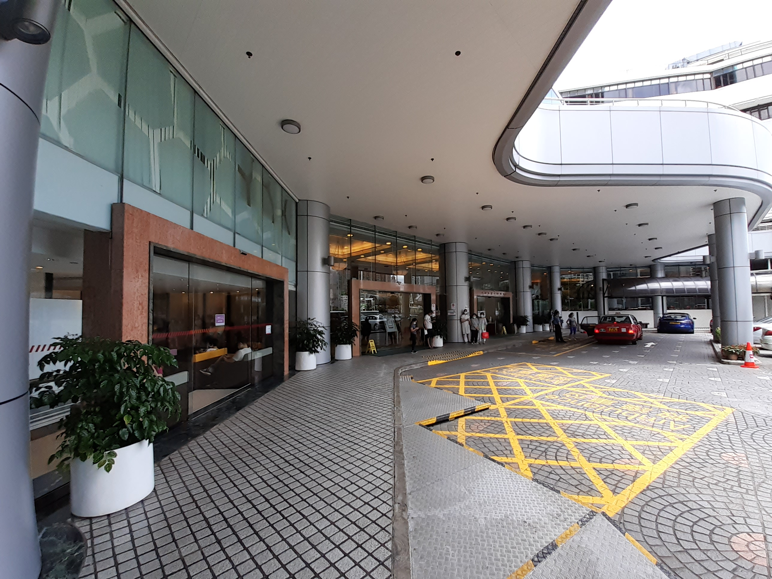 HK HV 跑馬地 Happy Valley 養和醫院 Hong Kong Sanatorium and Hospital in July 2020